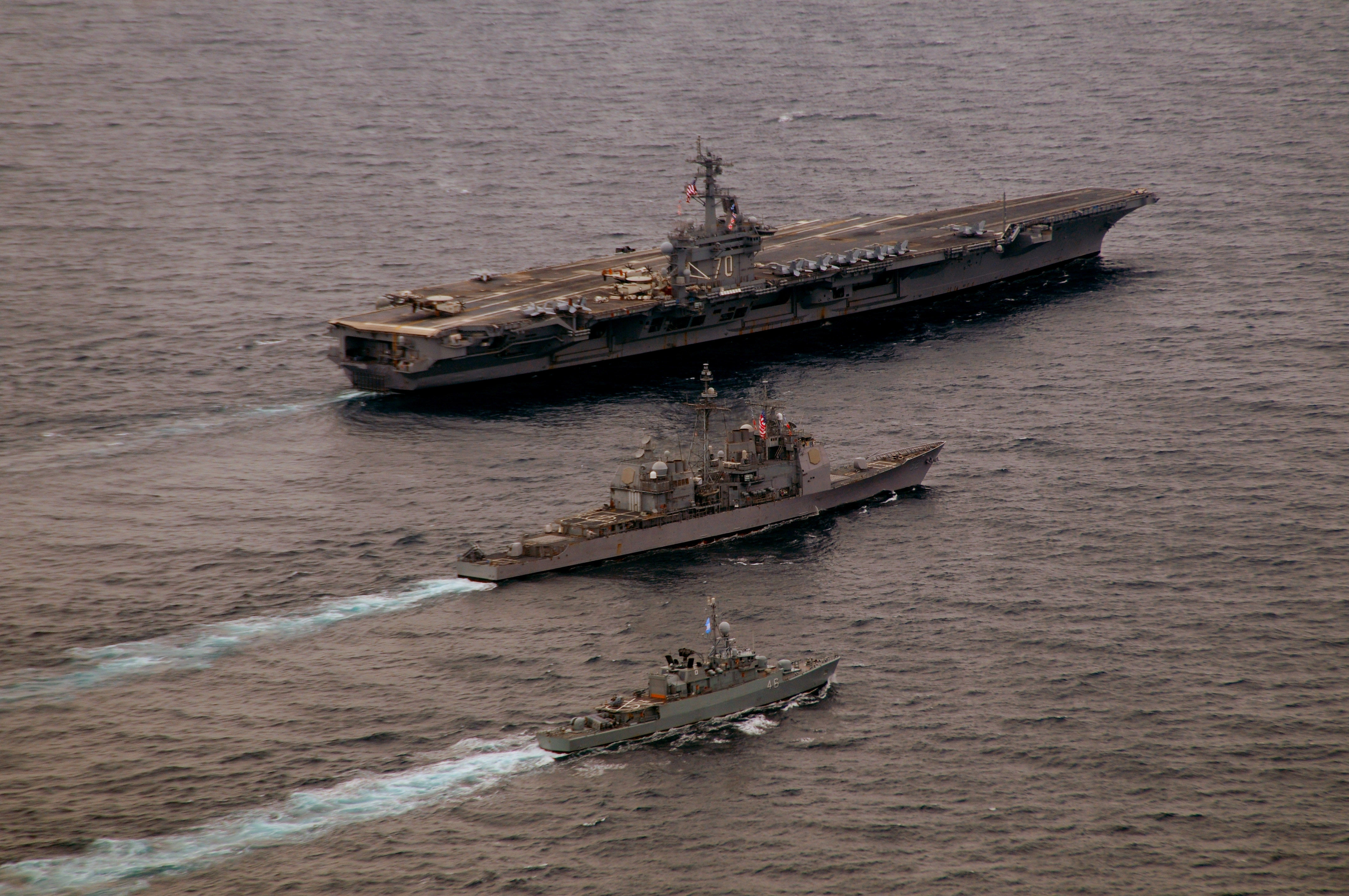 The Nimitz-class aircraft carrier USS Carl Vinson performs tactical maneuvering exercises with the guided-missile cruiser USS Bunker Hill and the Argentina navy frigate ARA Gomez Roca. Carl Vinson is off the coast of Argentina supporting Southern Seas 2010. Unit: Navy Media Content Services DVIDS Tags: Navy; USS Carl Vinson (CVn 70; ships; ARA Gomez Roca (P 46); Argentinean Navy; Souther Seas 2010; COMUSNAVSO; USS Bunker Hill (CG 52); helicopter; exercise; training